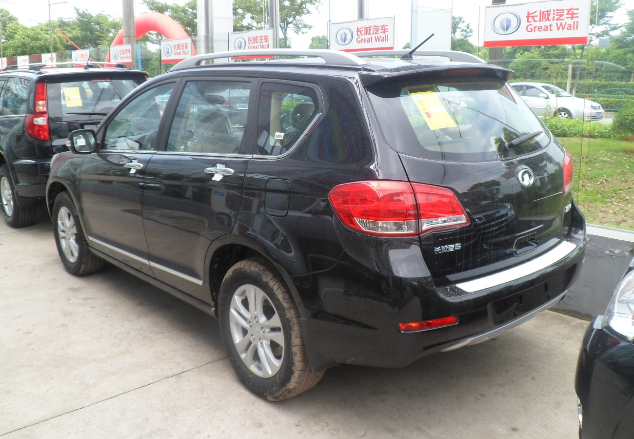 Great Wall Haval H6 photographed in Shanghai, China.